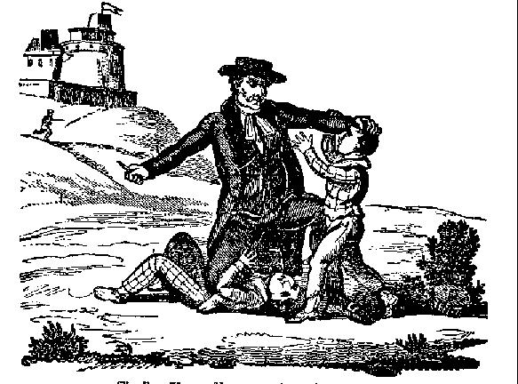 Image of child-murderer Rev. Thomas Hunter from the 18th century The Newgate Calendar. Uploaded to illustrate Newgate Calendar article.